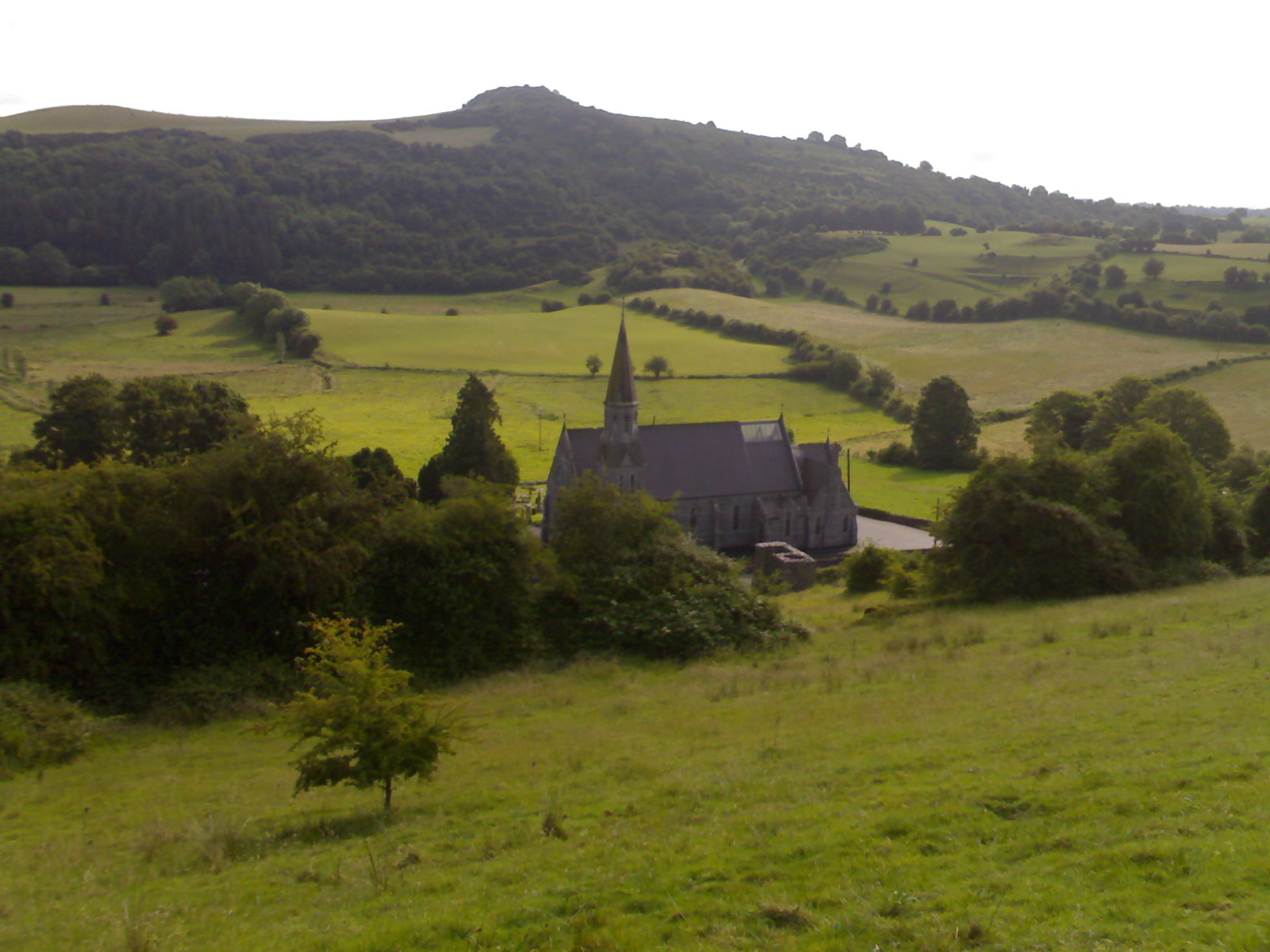 Hill_of_Ben_Fore.JPG 2006